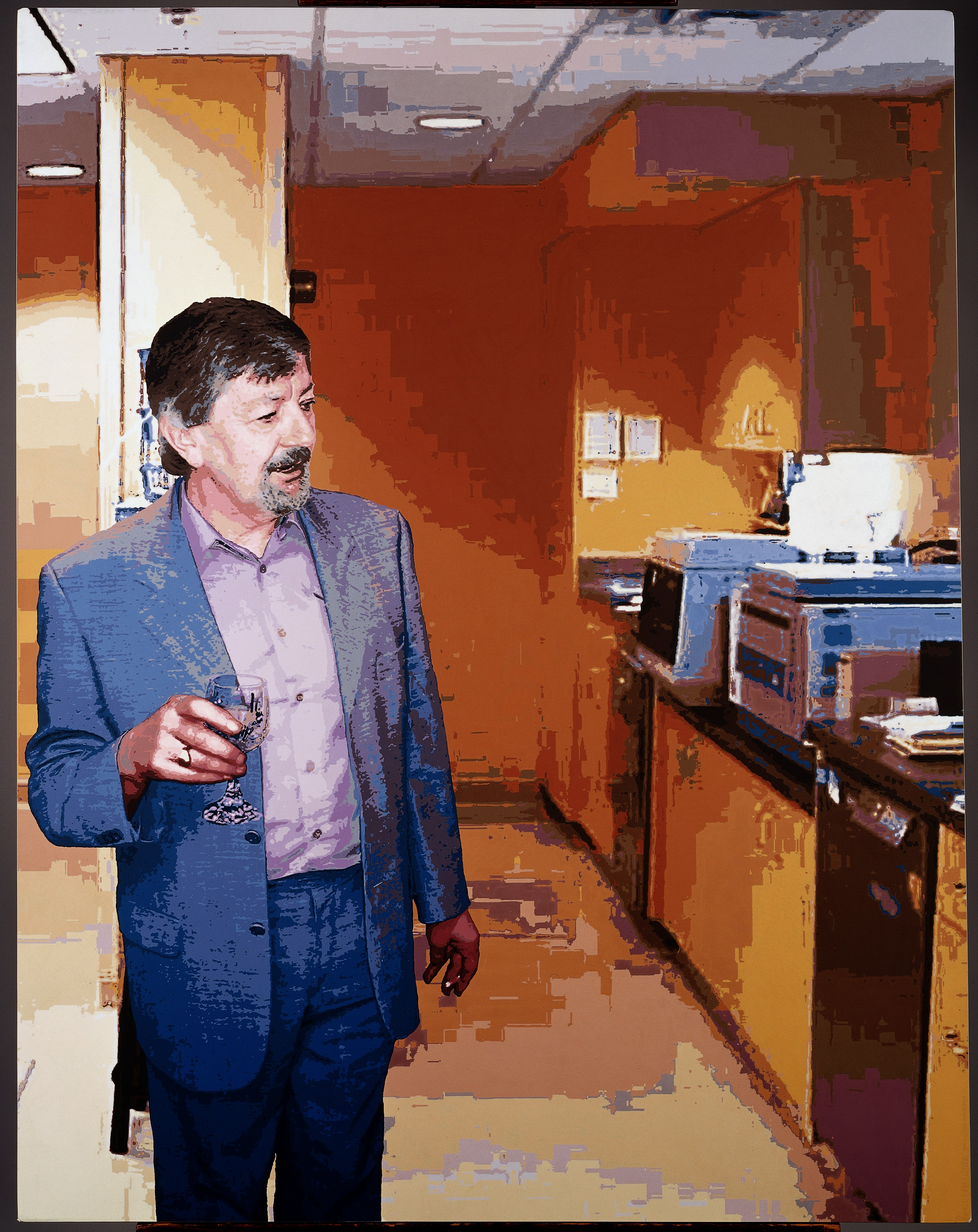 T. Mike Dexter Iconographic Collections Keywords: T. Michael Dexter; Alex Dexter